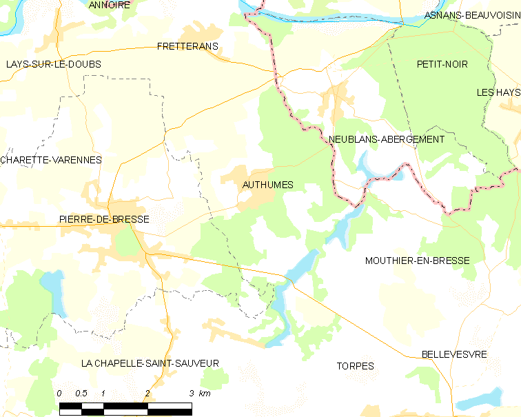 Map of French municipality